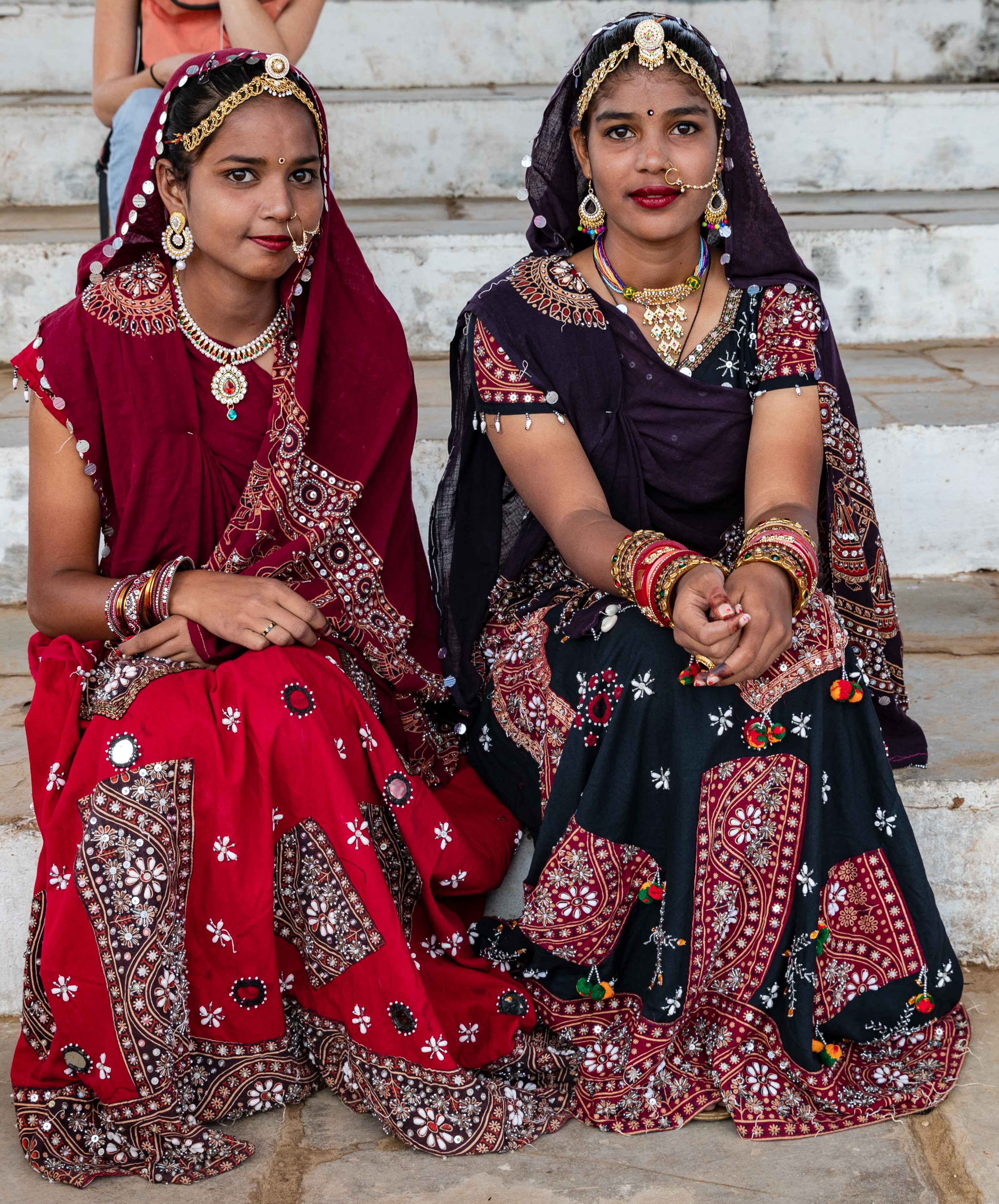 Girls at Pushkar Fair 2019, Rajasthan, India